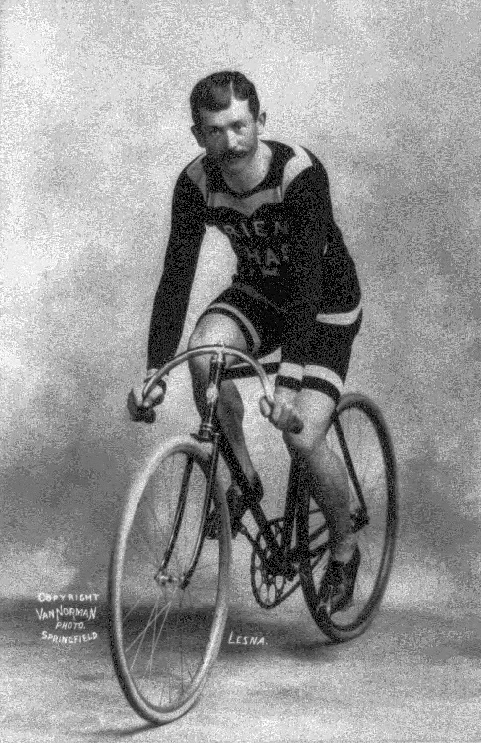 Lucien Lesna on bicycle.